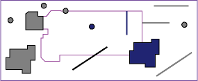 overlap